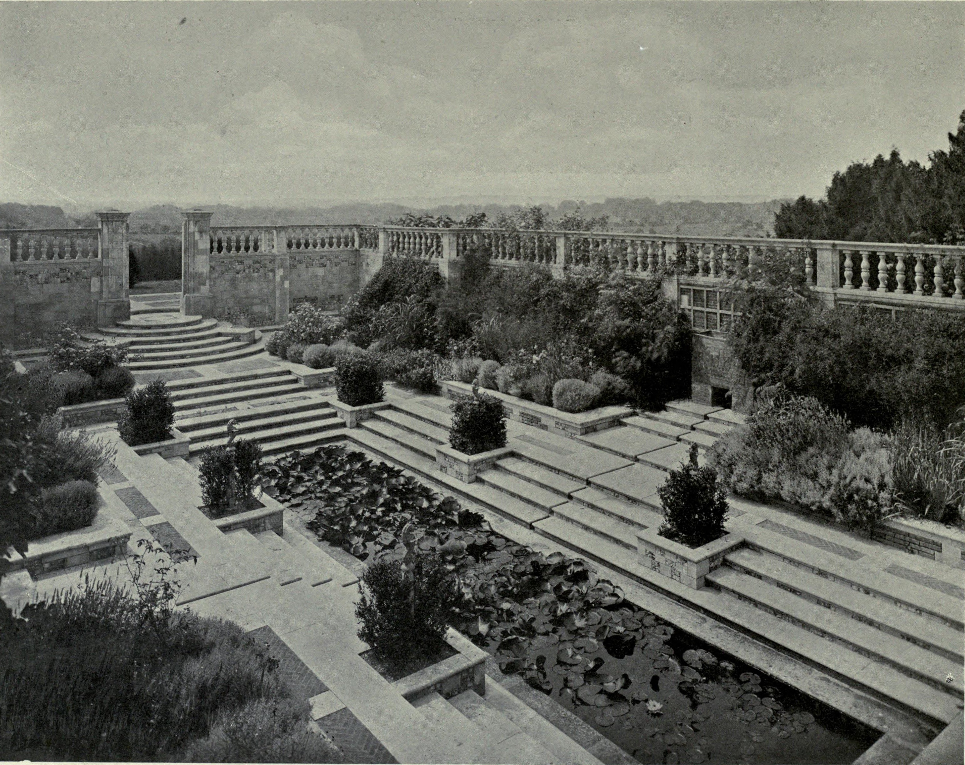 Illustration in the book featuring a garden of Marshcourt, Stockbridge, Hampshire.